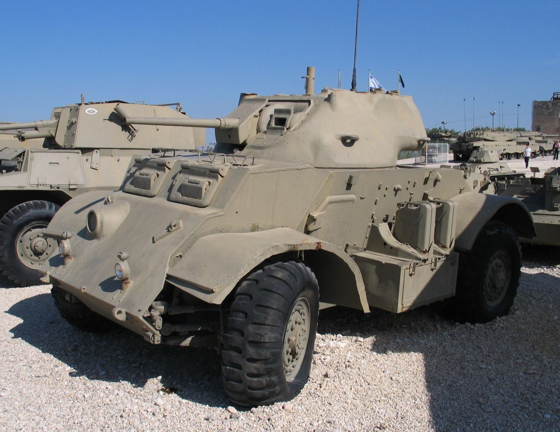 Description: T17E1 Staghound armored car in Yad la-Shiryon Museum, Israel. 2205. Source: Photo by me, User:Bukvoed.